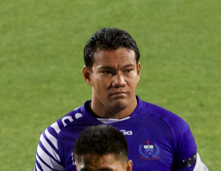 Match between South Africa vs Samoa during 2011 Rugby World Cup in New Zealand.